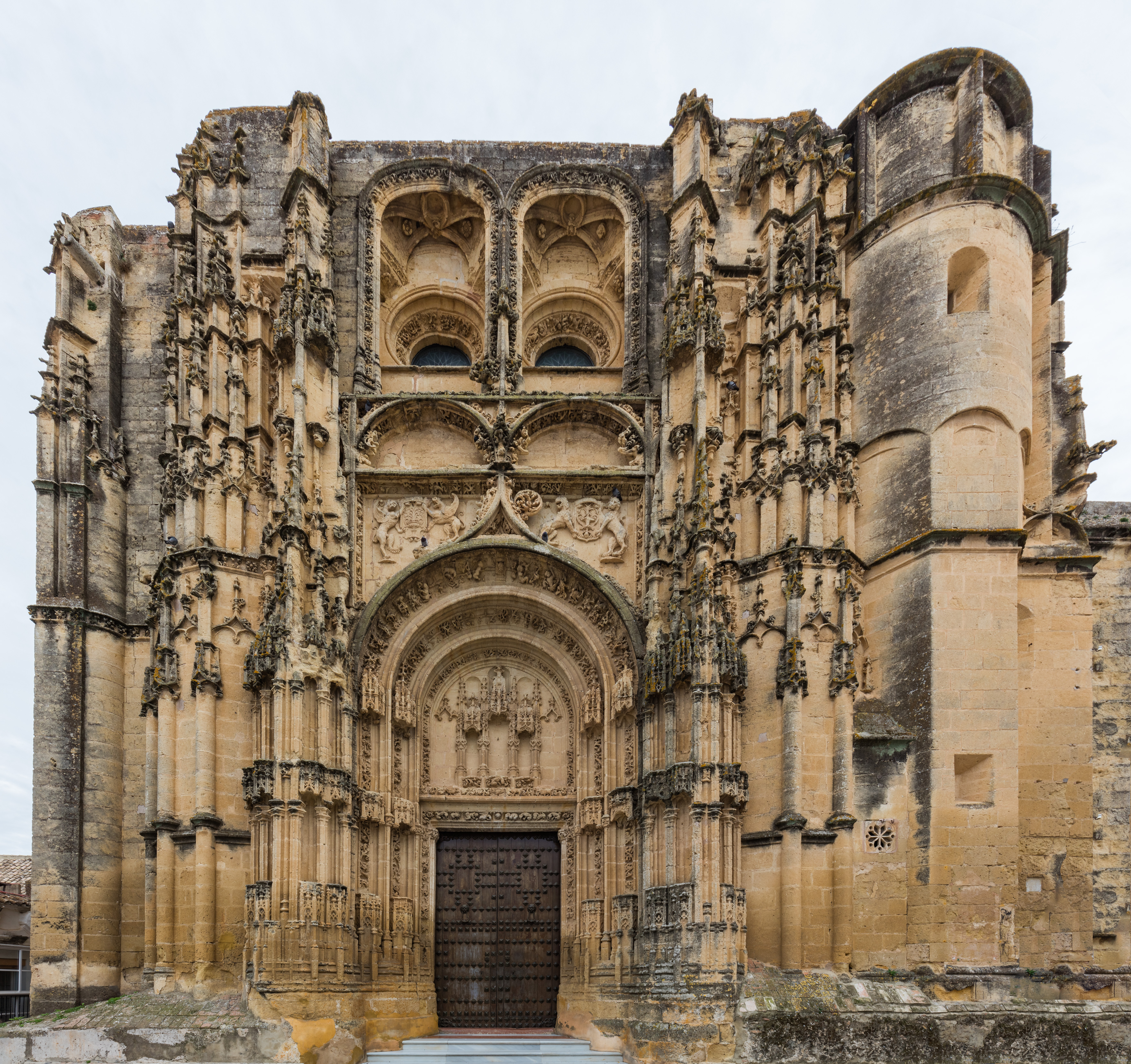 Church of Santa María de la Asunción, Arcos de la Frontera, Cádiz, Spain